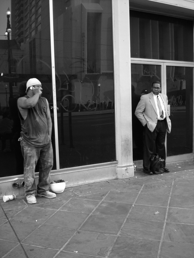 "Class, Canal Street, New Orleans". Two men, one in dirty casual work clothes, the other in dress pants, jacket and tie.